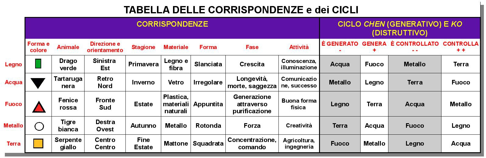 Feng Shui: Table of correlation and cycles (it)